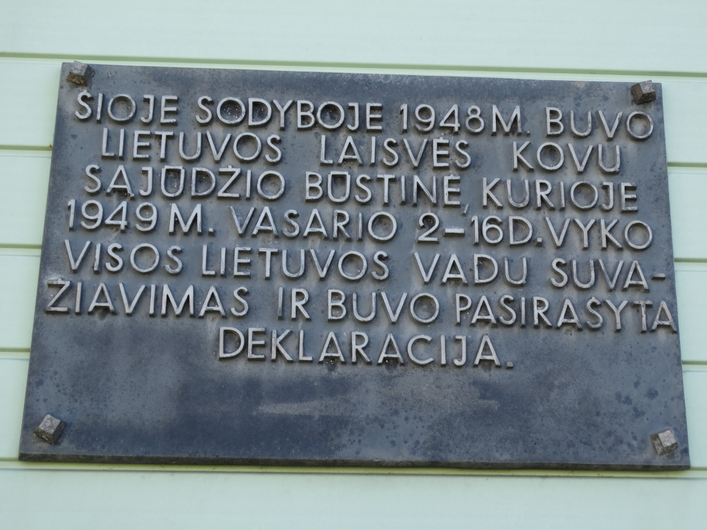 Minaičiai, plaque in memory of Lithuanian Partisans' Declaration of February 16, 1949, Radviliškis district, Lithuania